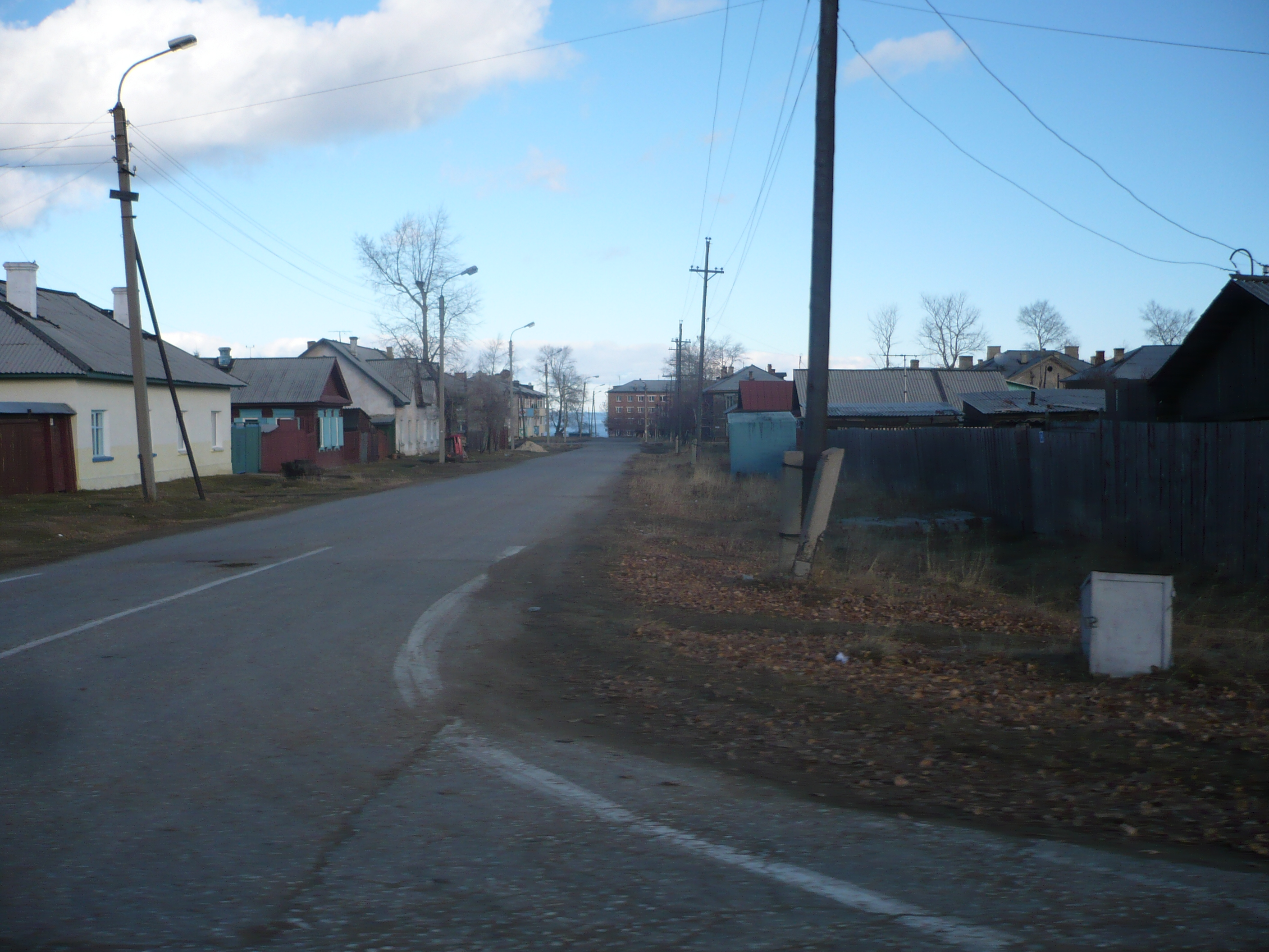 Street in the city Babushkin